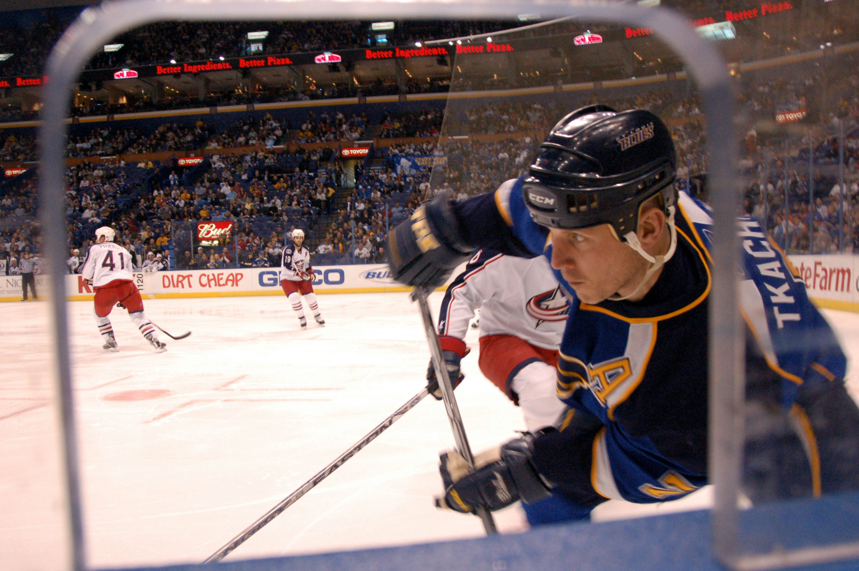 I don't think ESPN would get the glass (emphasis on the 'gl') hole in the picture, but I kind of like the effect.